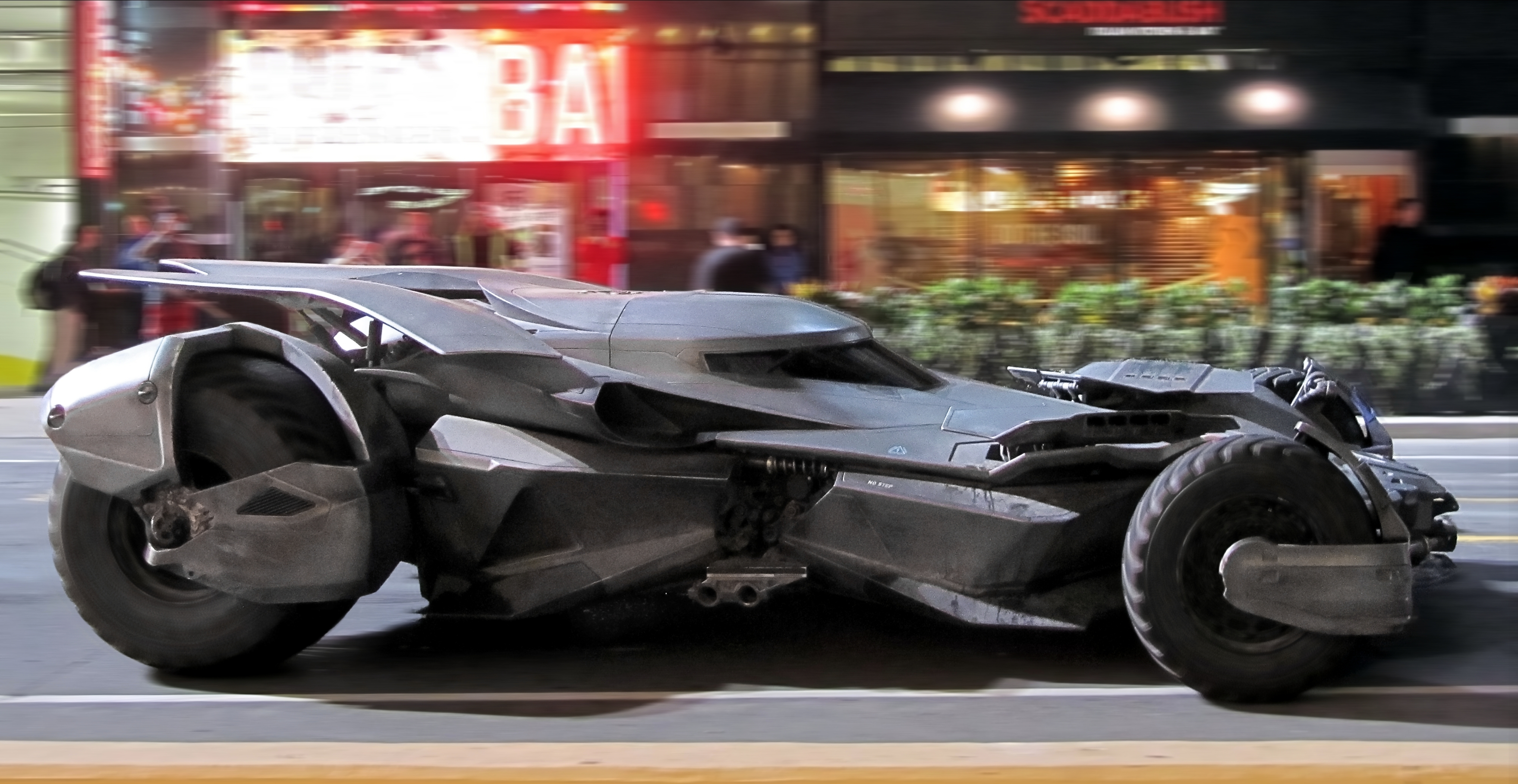 Batmobile on the set of Suicide Squad in Toronto.